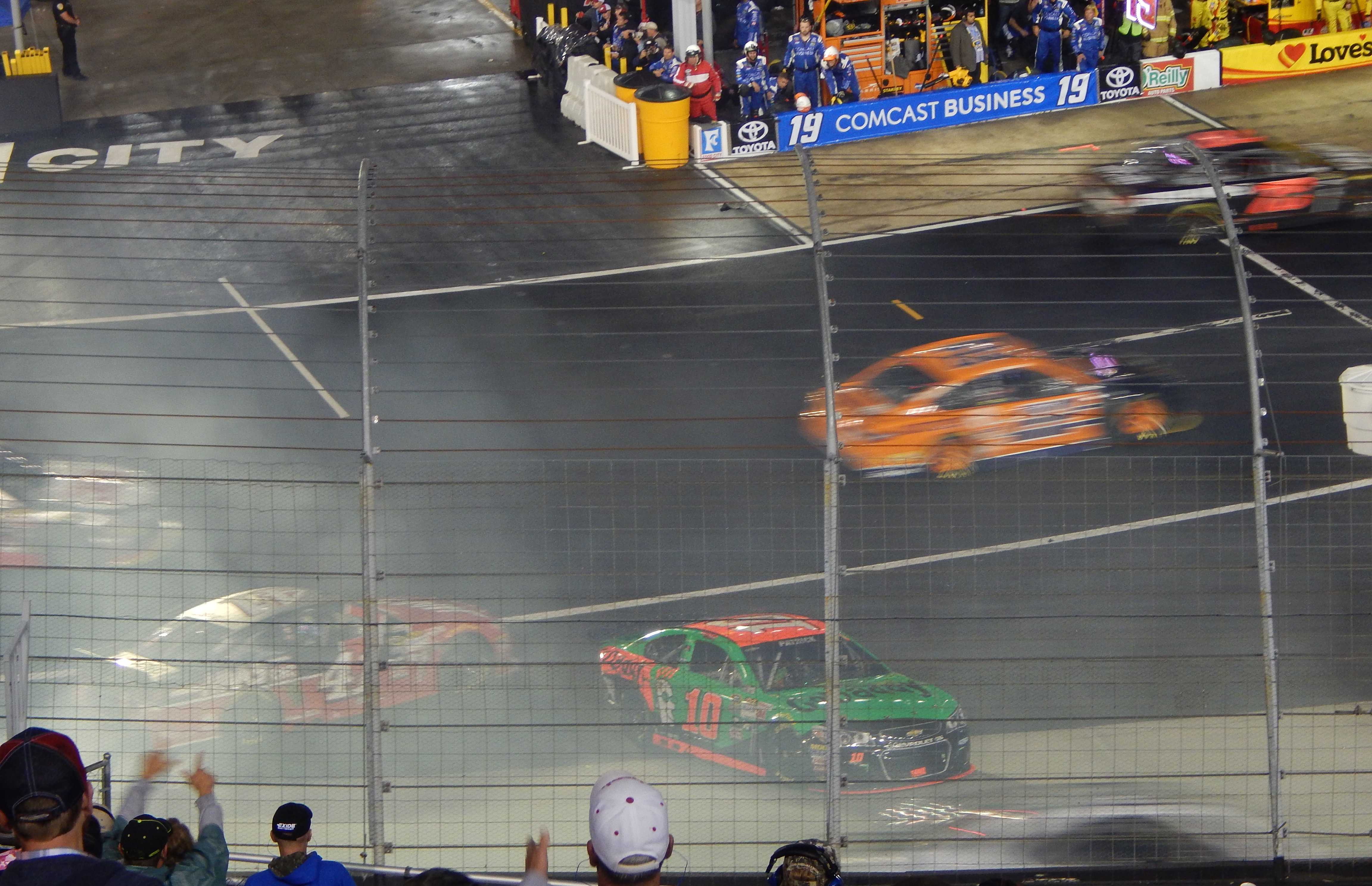 Trouble strikes half the Stewart-Haas stable on lap 280.